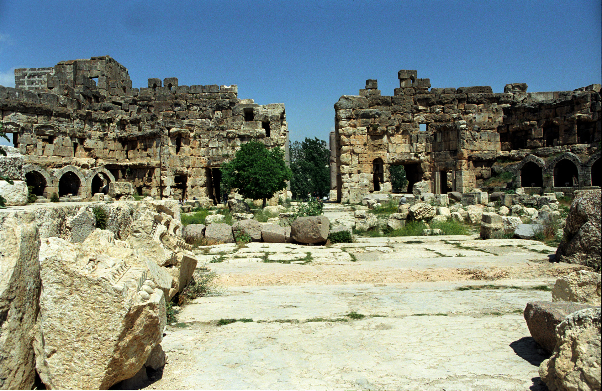 Baalbek, The Hexagonal Forecourt